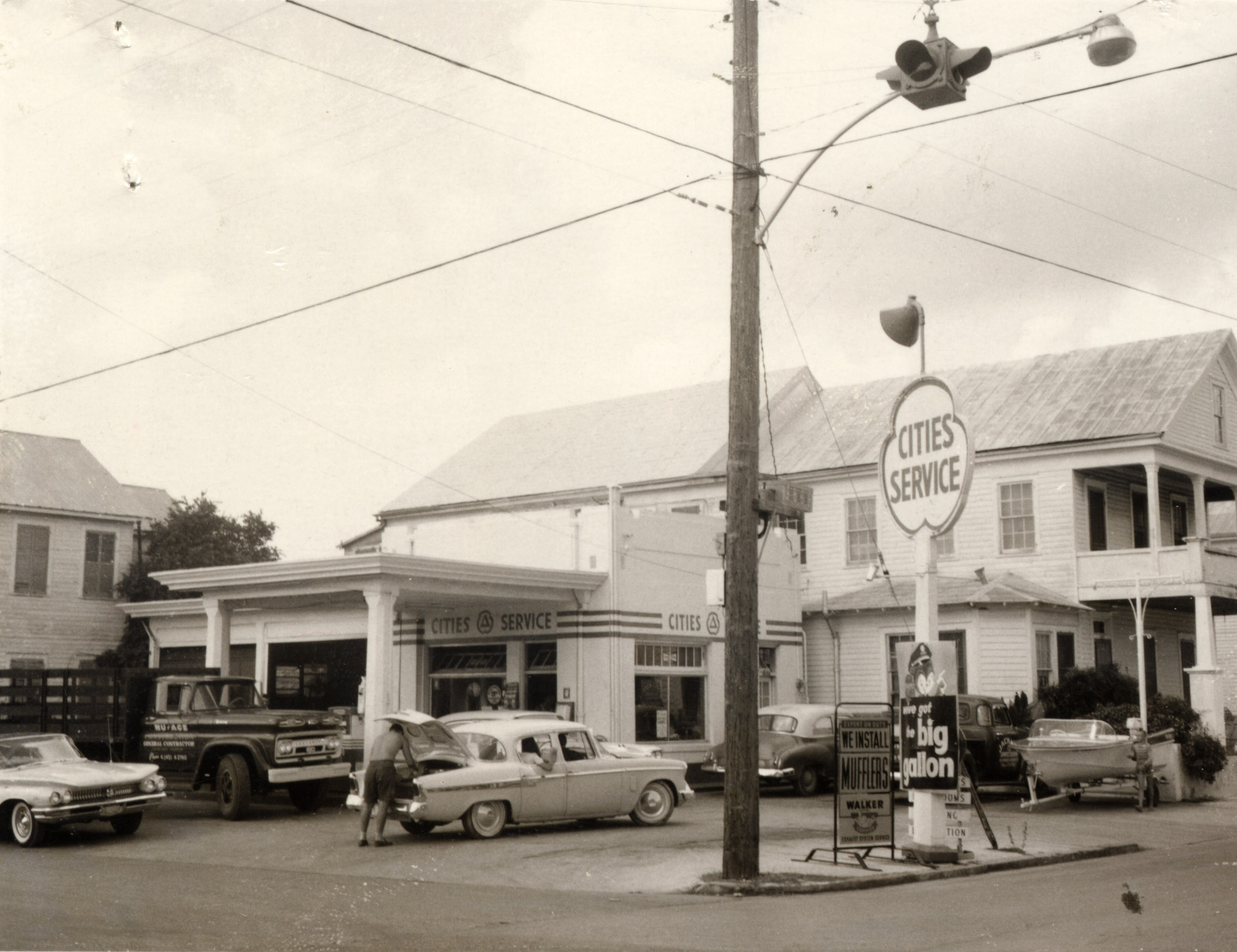 Photo taken by Property Appraiser's office c1965; 425 Grinnell Street; built 1934; Jack & Al's Citgo Service Station; Sqr 32, Pt Lot 4